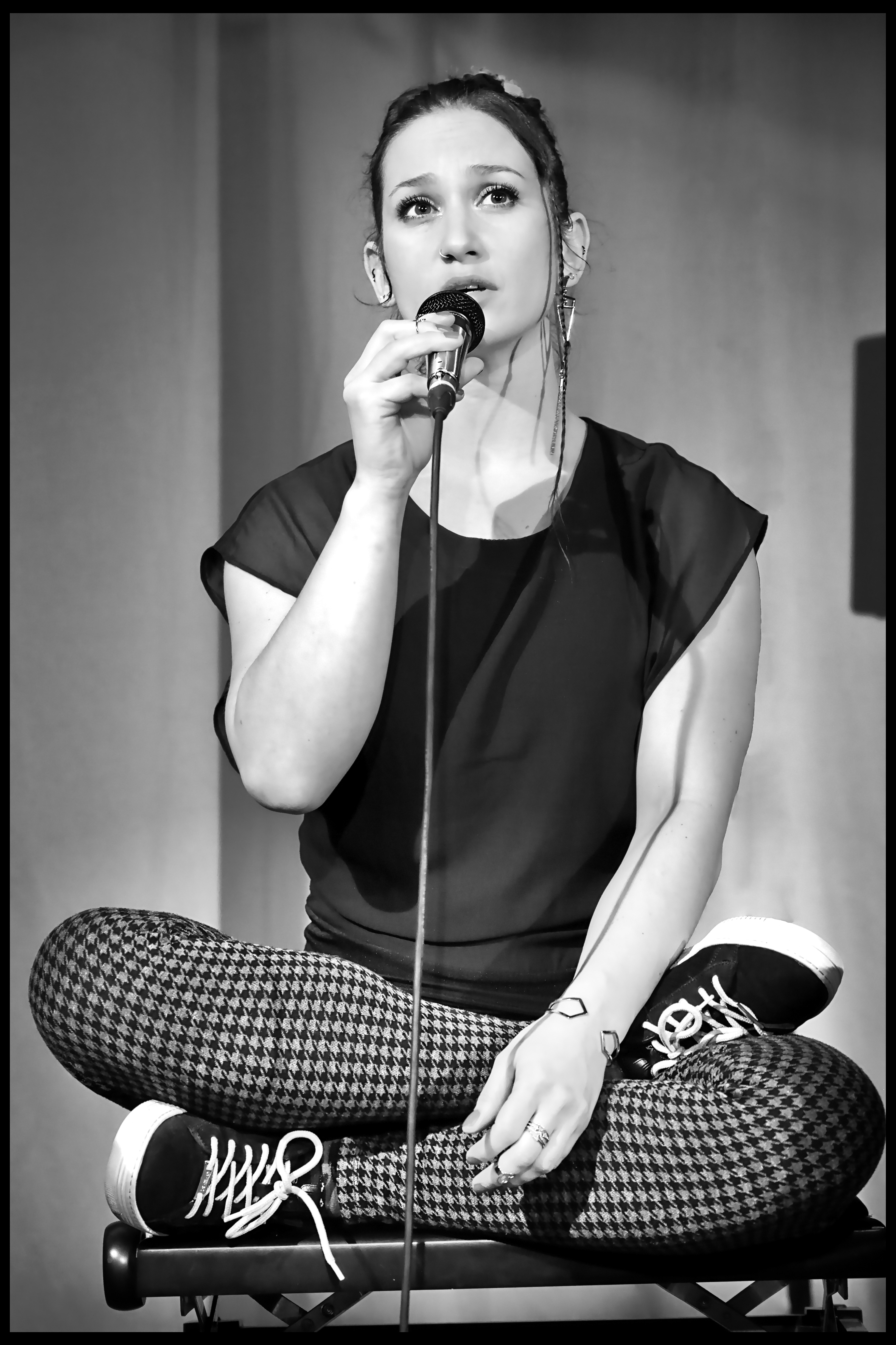 Samira Saygili singing at Jazz We Can